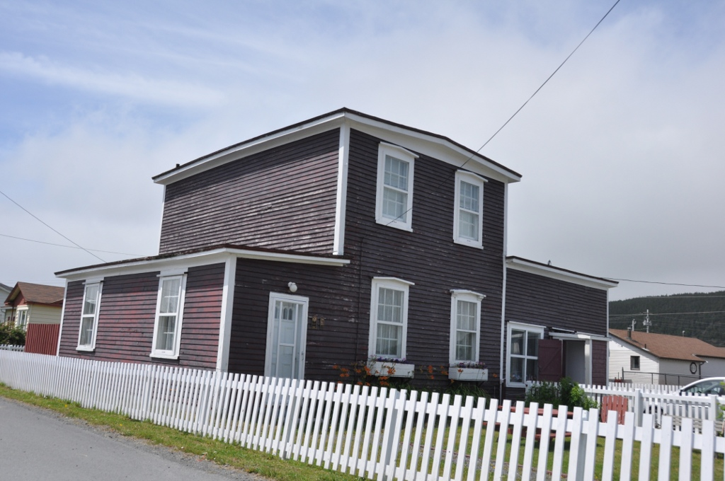 Anglo American Telegraph Company Cable Office Registered Heritage Structure, Placentia, Newfoundland.